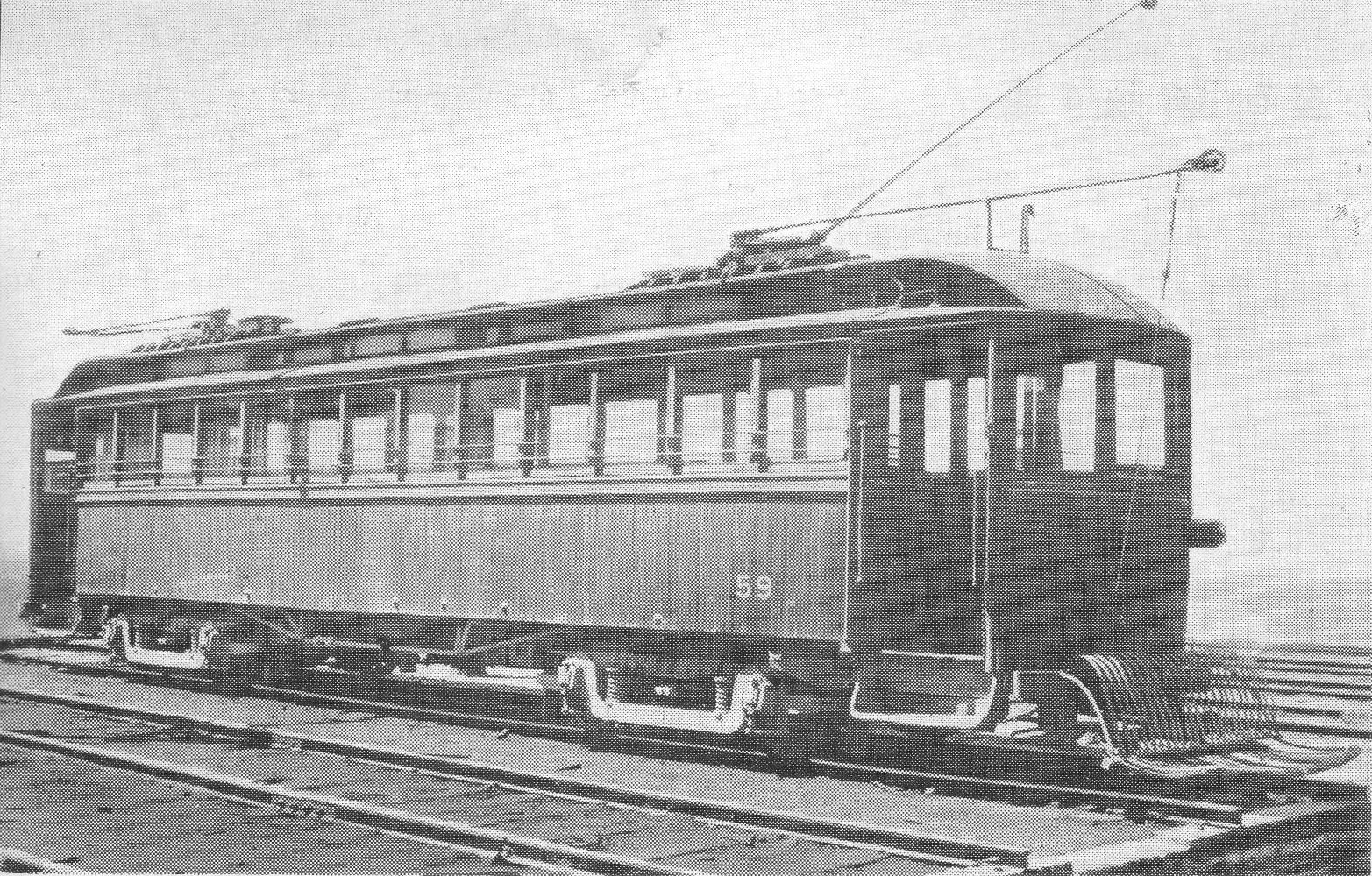 Hanshin Electric Railway #59.